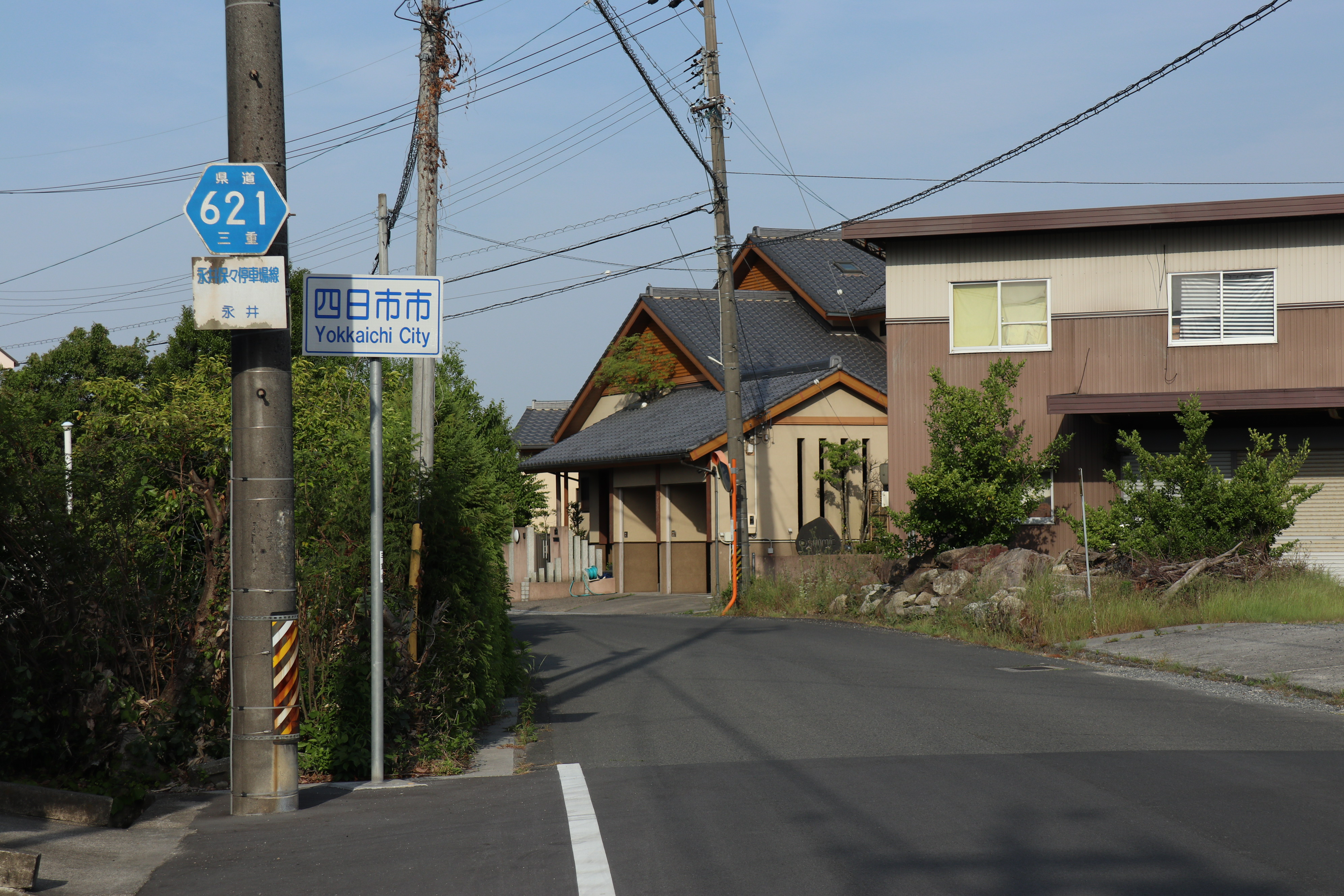 Mie Prefectural Route 621